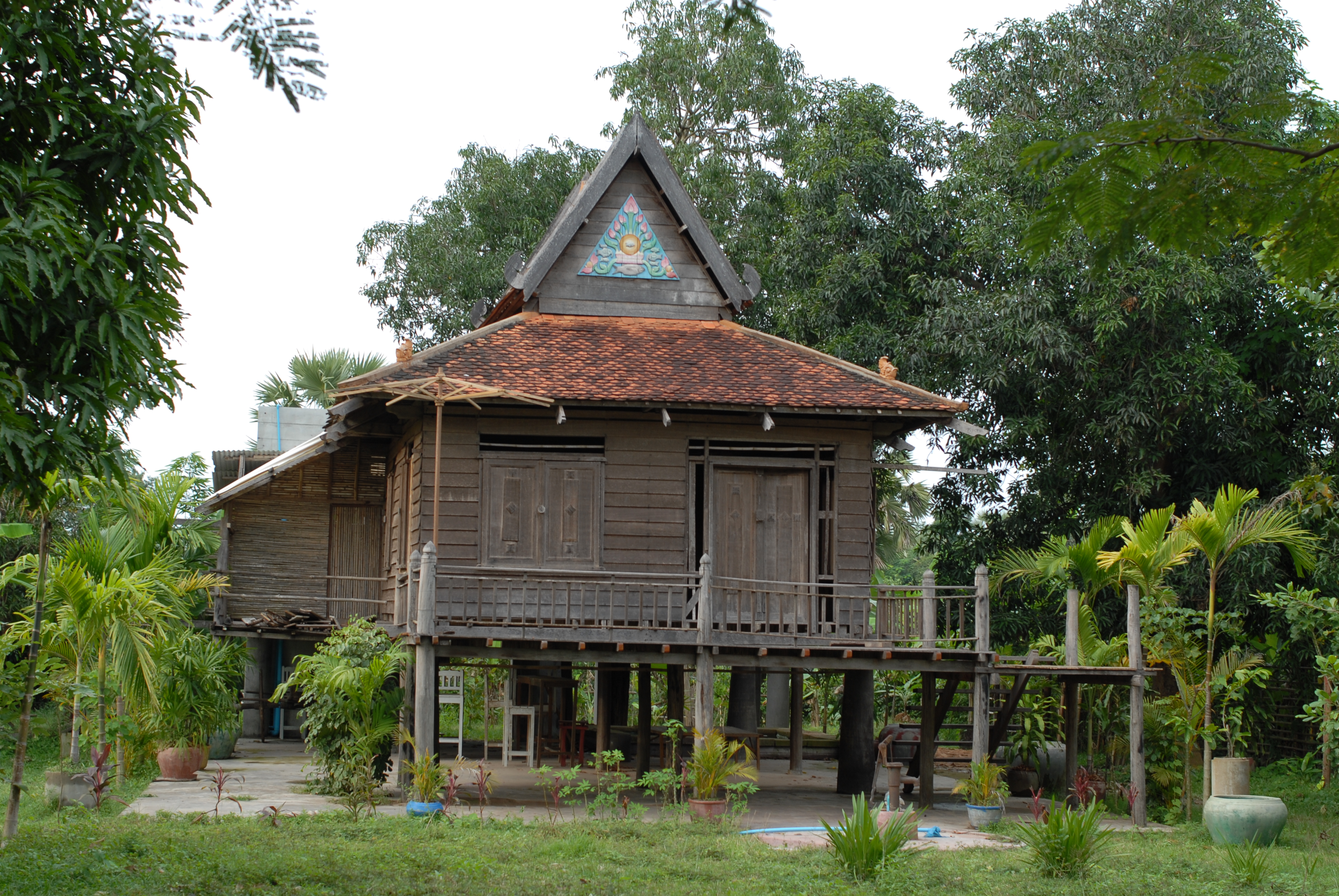 Further developments using modern building materials